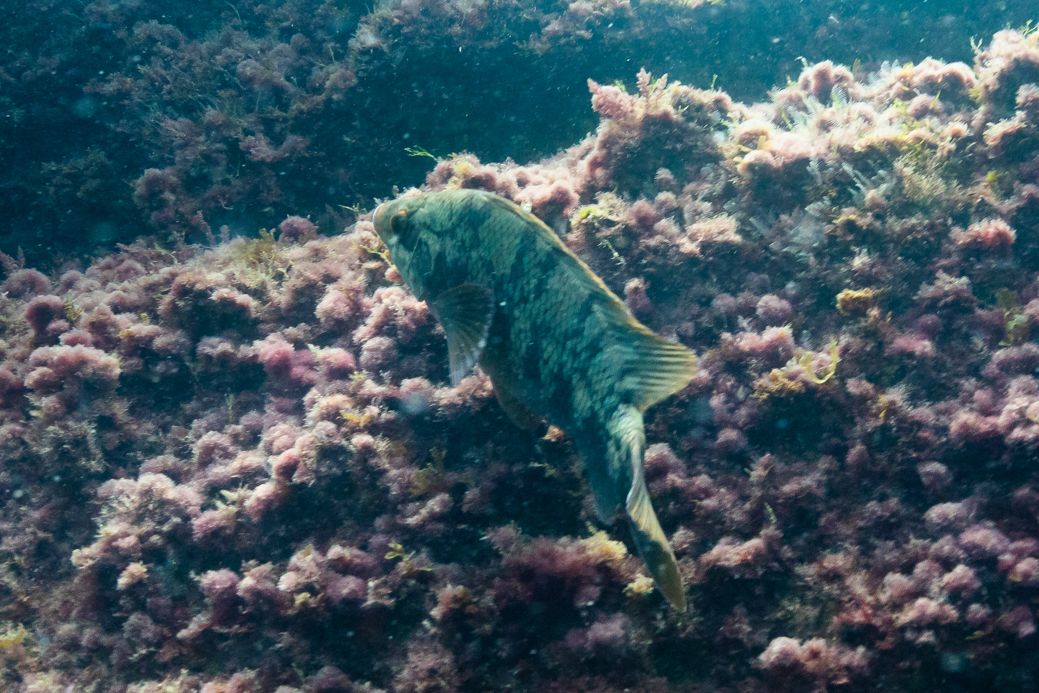 Green wrasse (Labrus viridis), Mouro Island, Santander, Spain